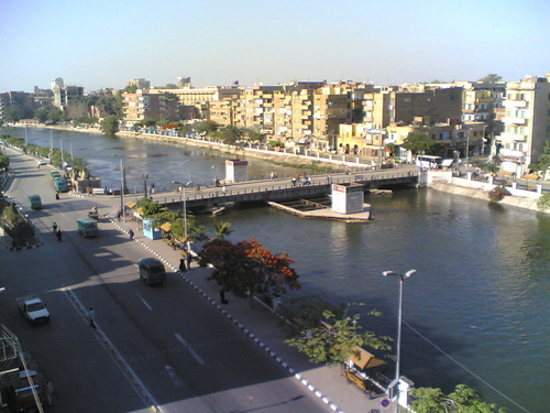 Omar Afandi Bridge in Shibin El Kom